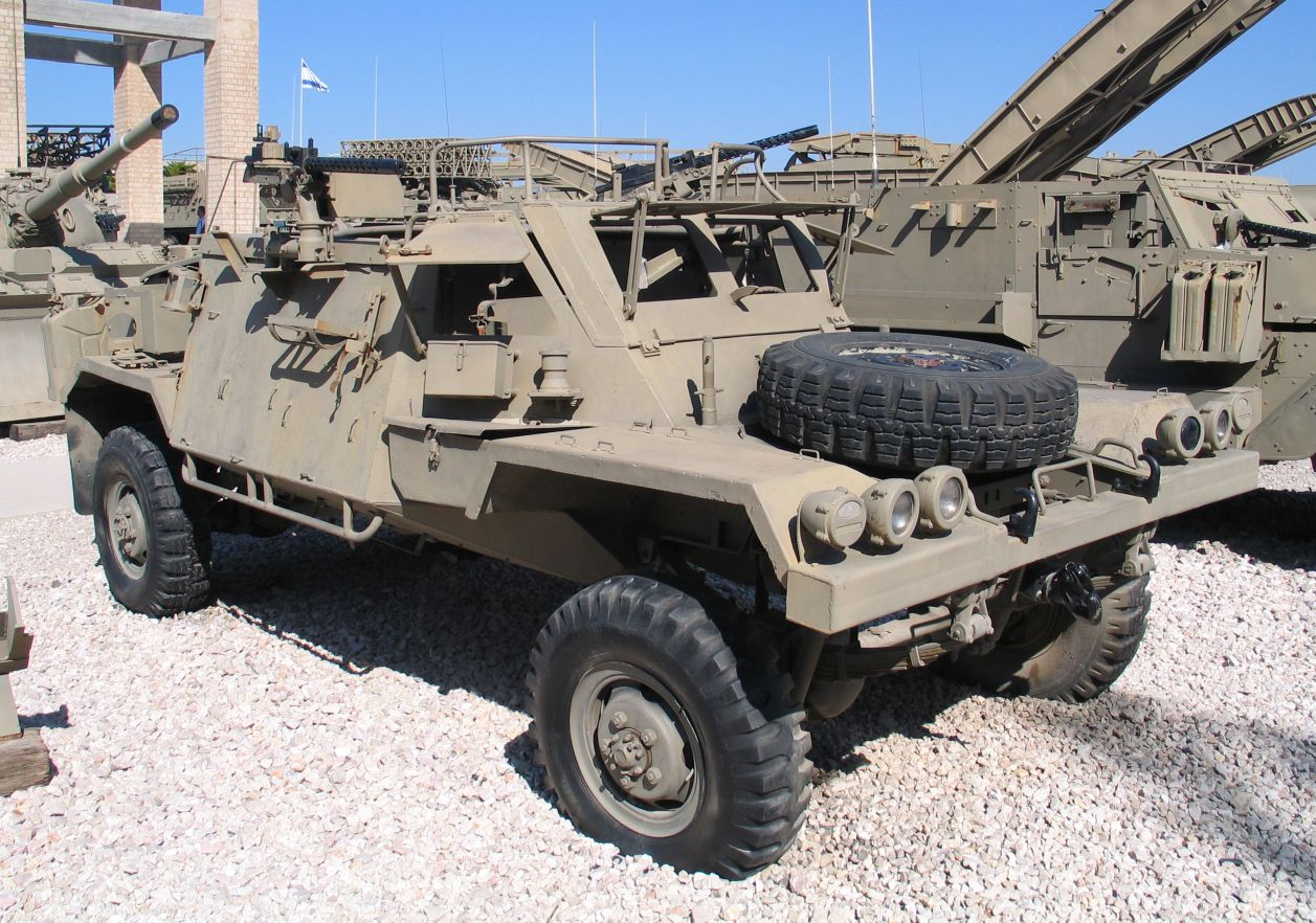 Description: RBY Mk I light armoured reconnaissance vehicle in Yad la-Shiryon Museum, Israel. Source: Photo by me, User:Bukvoed.